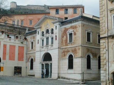 Biblioteca Civica